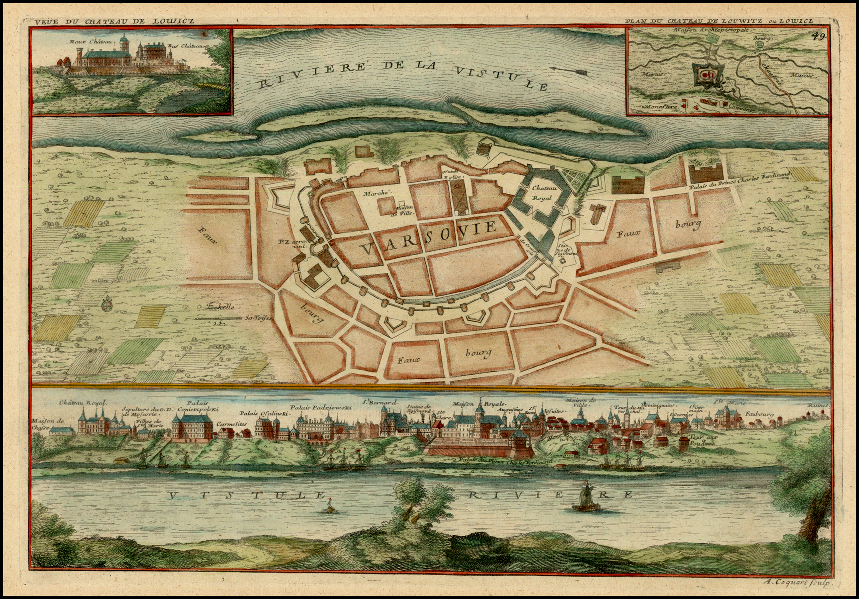 French map of Warsaw, made in 1705 by Nicolasa De Fera.